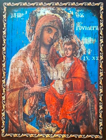 Panagia Goumera Icon